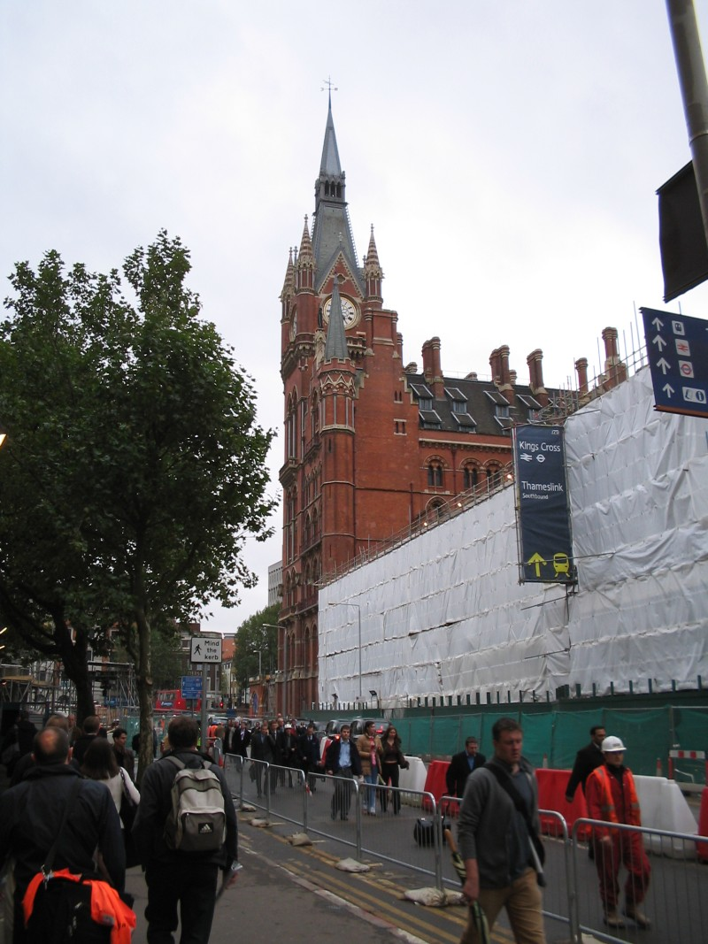 Foreground: St Pancras railway station train shed undergoing refurbishment. Rear: Spires of St Pancras station building.